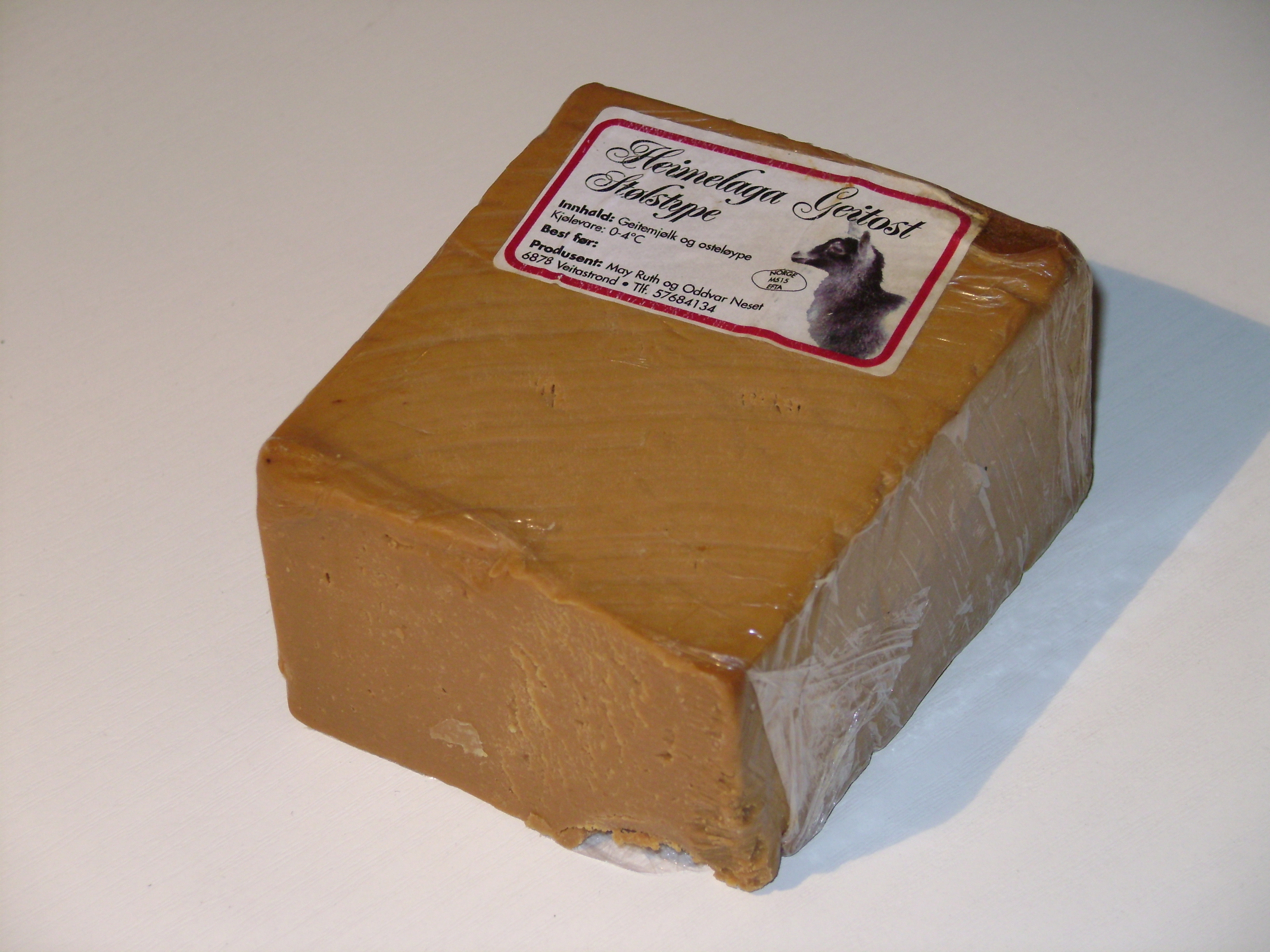 geitost – a norwegian goat cheese